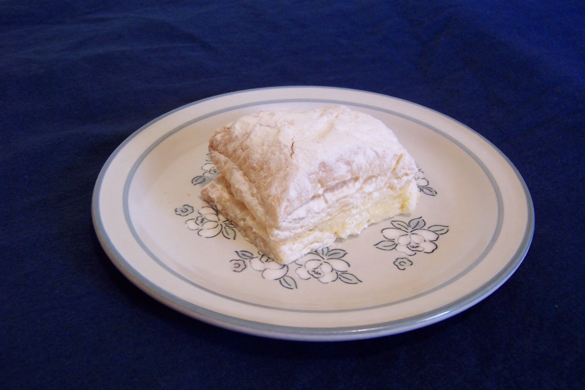 Miguelito de La Roda (en Albacete, España)